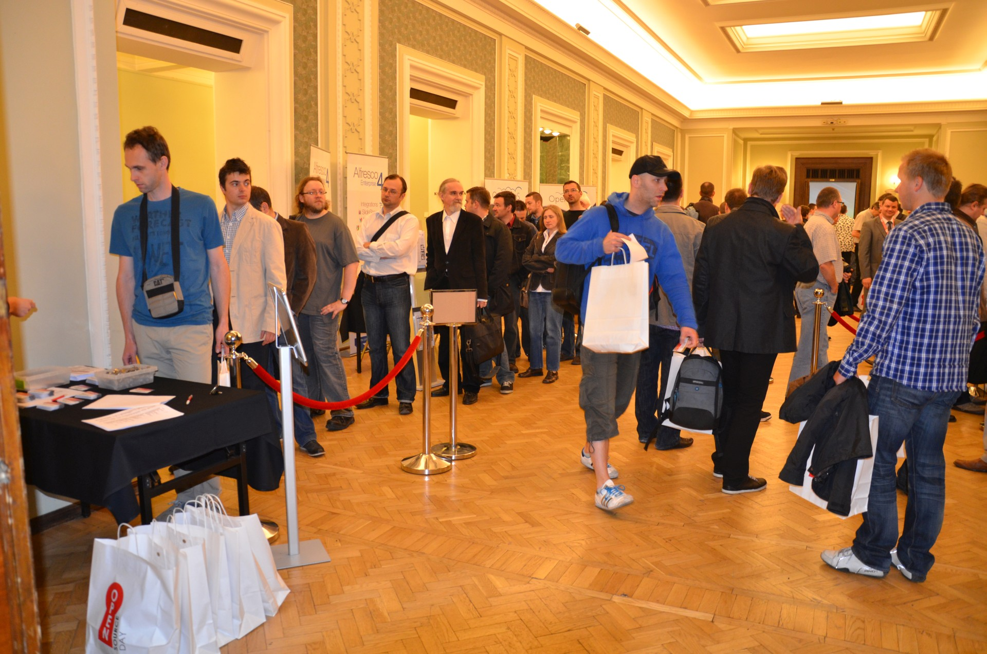 More than 500 participants checked-in at the registration desk of Open Source Day 2012 Conference in Warsaw